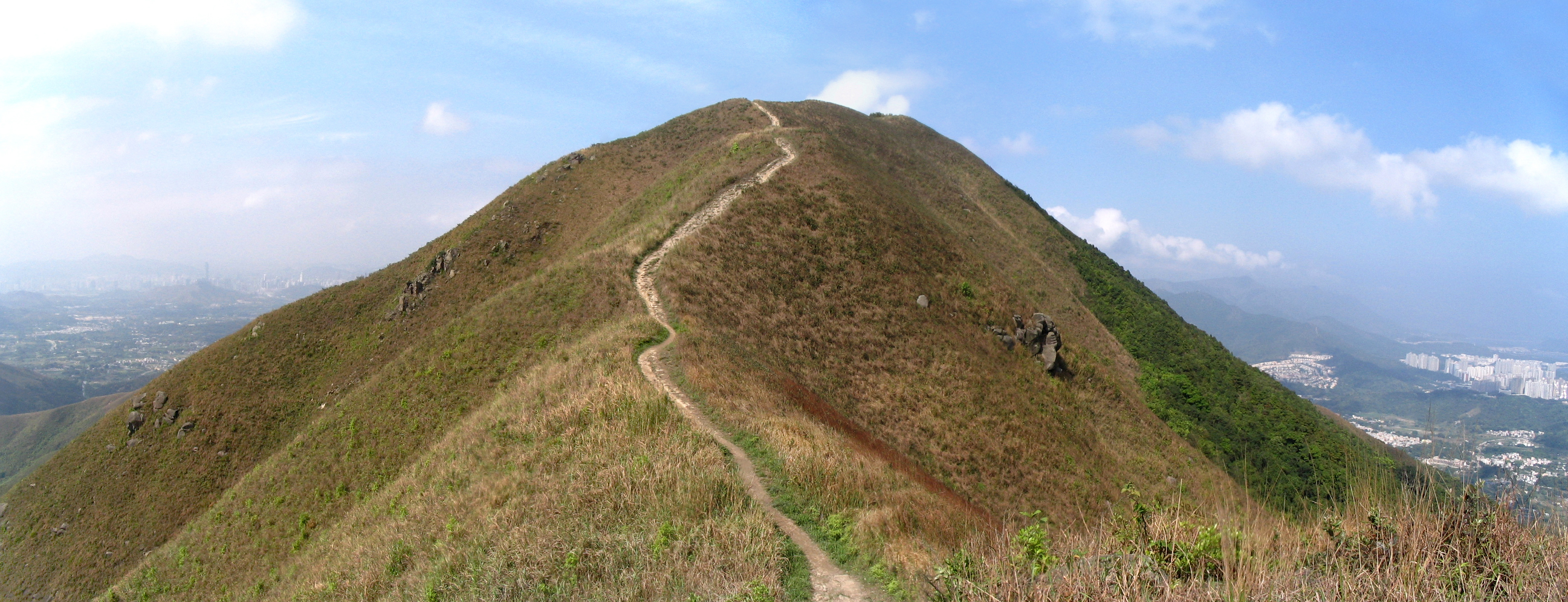 Panoramic photo of Tai To Yan, combined from 2389534653, 2390371318 and 2390373128